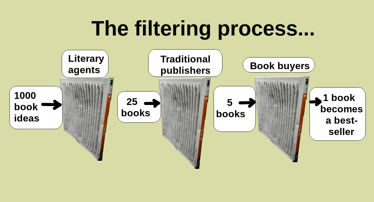 A few decades ago, in order for a book to reach the public, it had to pass successfully through various filters or screens, such as agents and publishers and bookstores. Today, however, self-publishing allows authors to bypass these filters and pitch their books directly to book buyers via online routes such as Amazon.